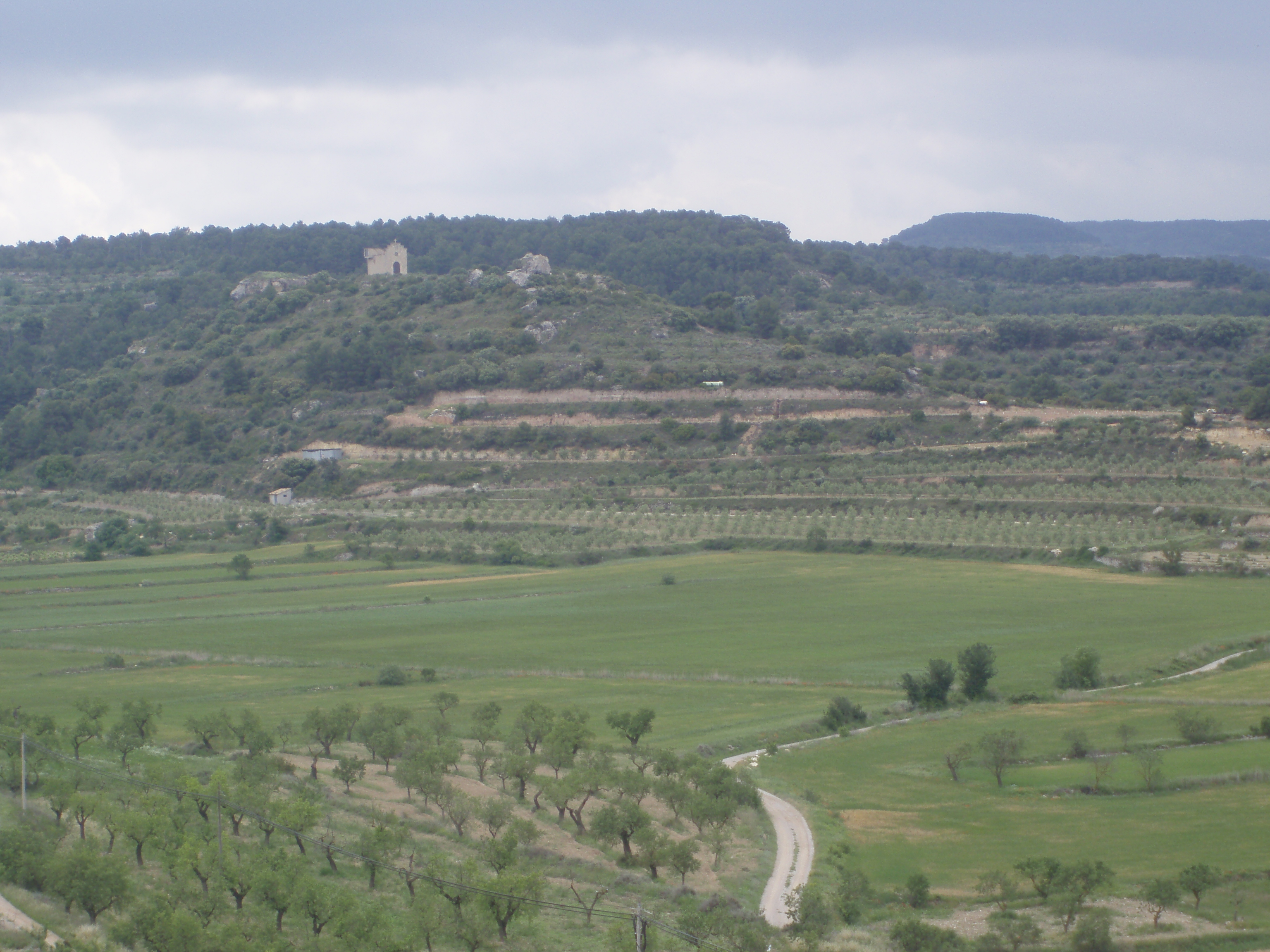 A view of Sant Joan de Maldanell from Maldà.